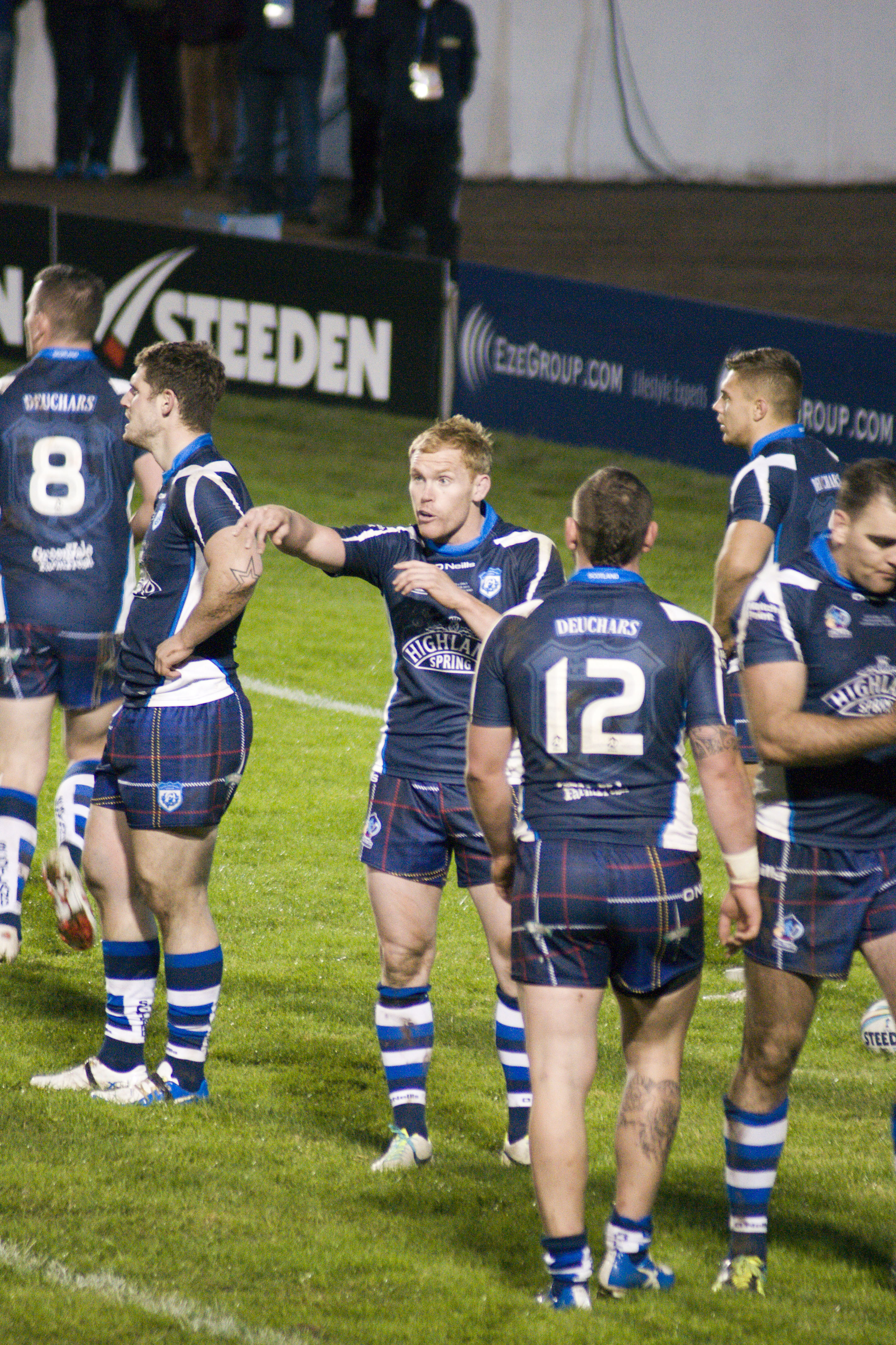 2013 Rugby League World Cup match between Scotland and Italy at Derwent Park in Workington.